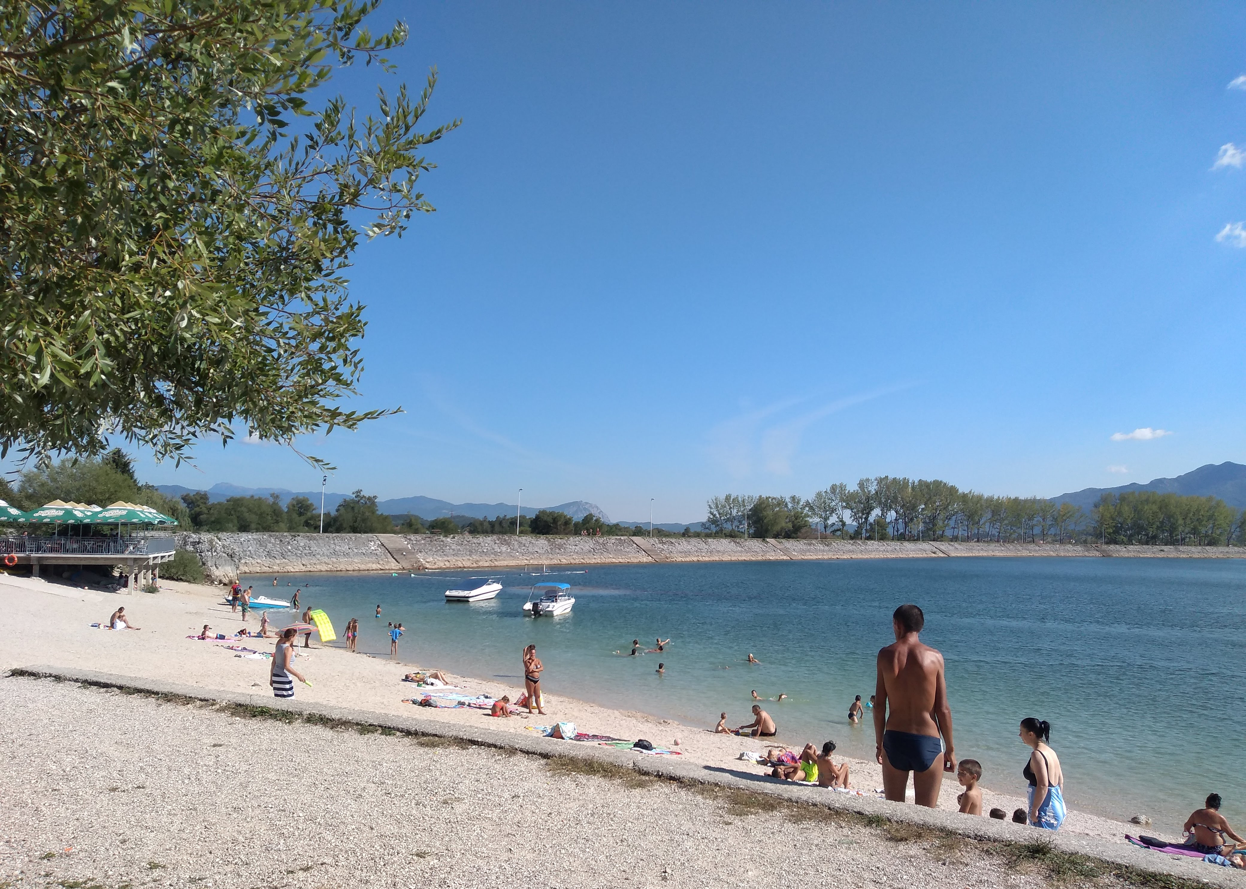 Beach on the Krupac Lake in Nikšić, Montenegro